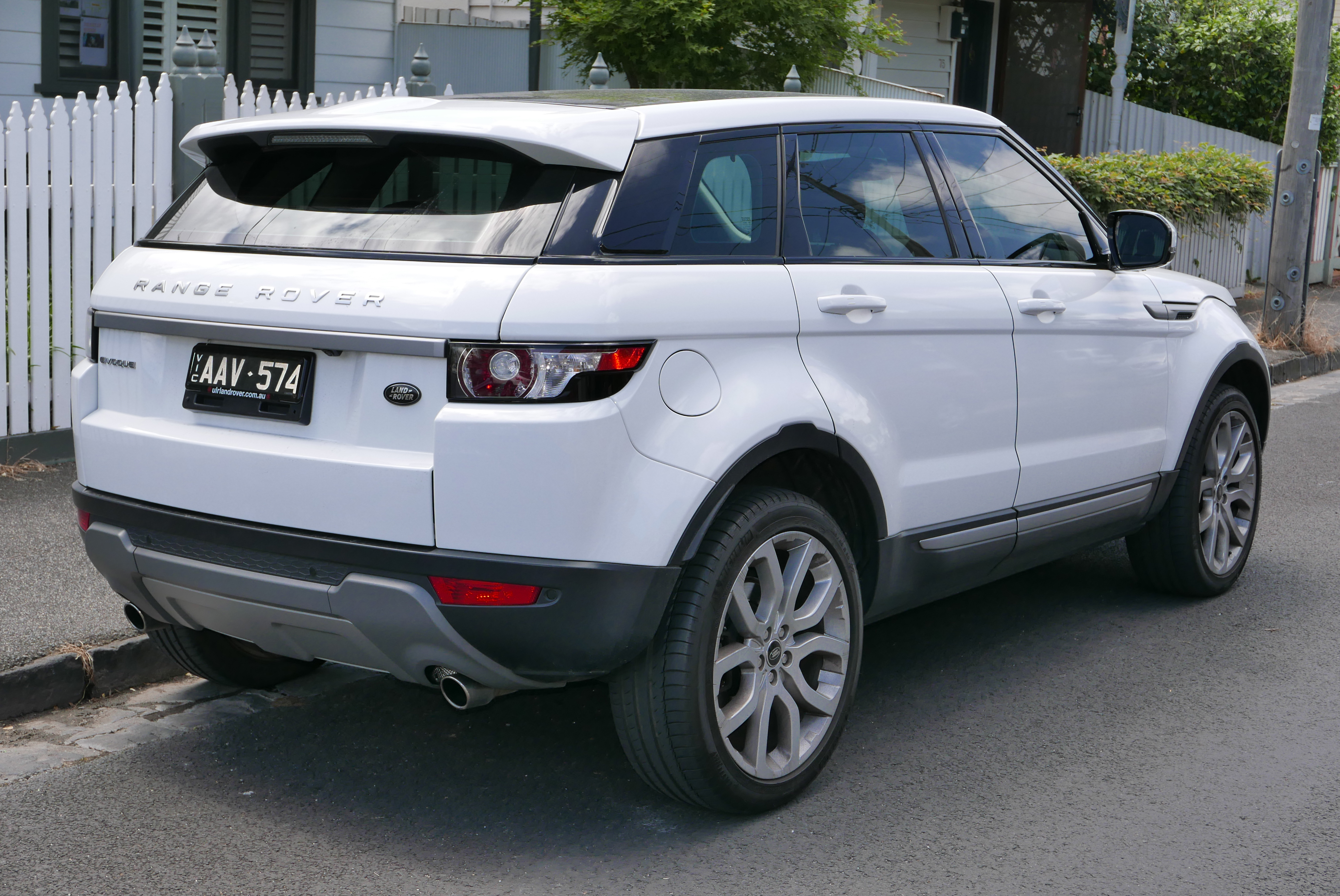 2013 Land Rover Range Rover Evoque (L538 MY13.5) SD4 Pure Tech 4WD 5-door wagon. Photographed in Brunswick, Victoria, Australia. Vehicle registration enquiry results Jurisdiction Victoria Registration AAV574 Chassis code SALVA2AE2DH844419 Engine code DZ784166284224DT Compliance date 2013-11 Year of manufacture 2013